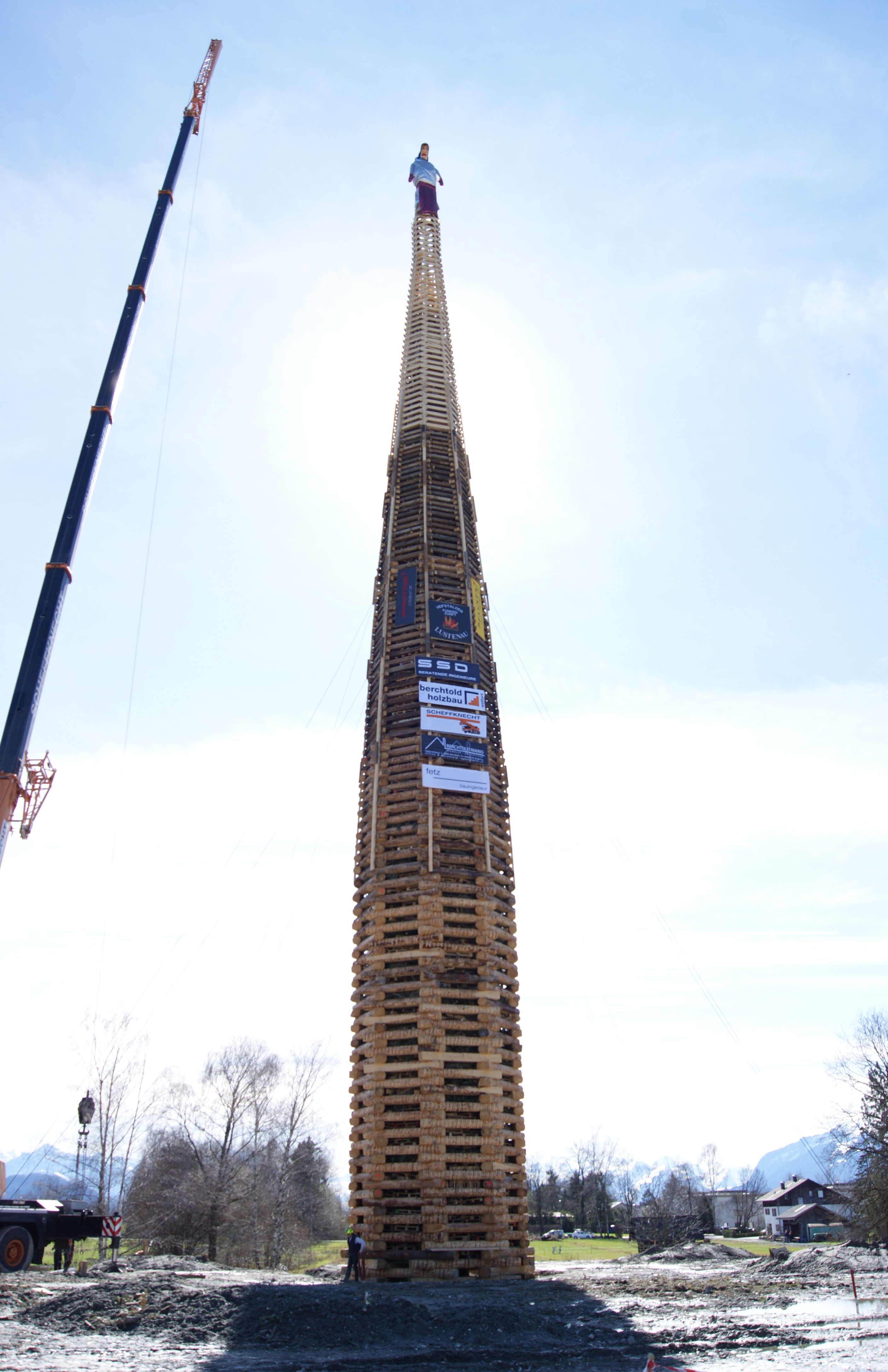 World record bonfire of the Hofstalder Funkenzunft in Lustenau (Vorarlberg, Austria). Total height in the final construction 60,646 meters. After installing the witch, the bonfire is ready to burn. The bonfire was burnt down on schedule at 20.00 on 16 March 2019.